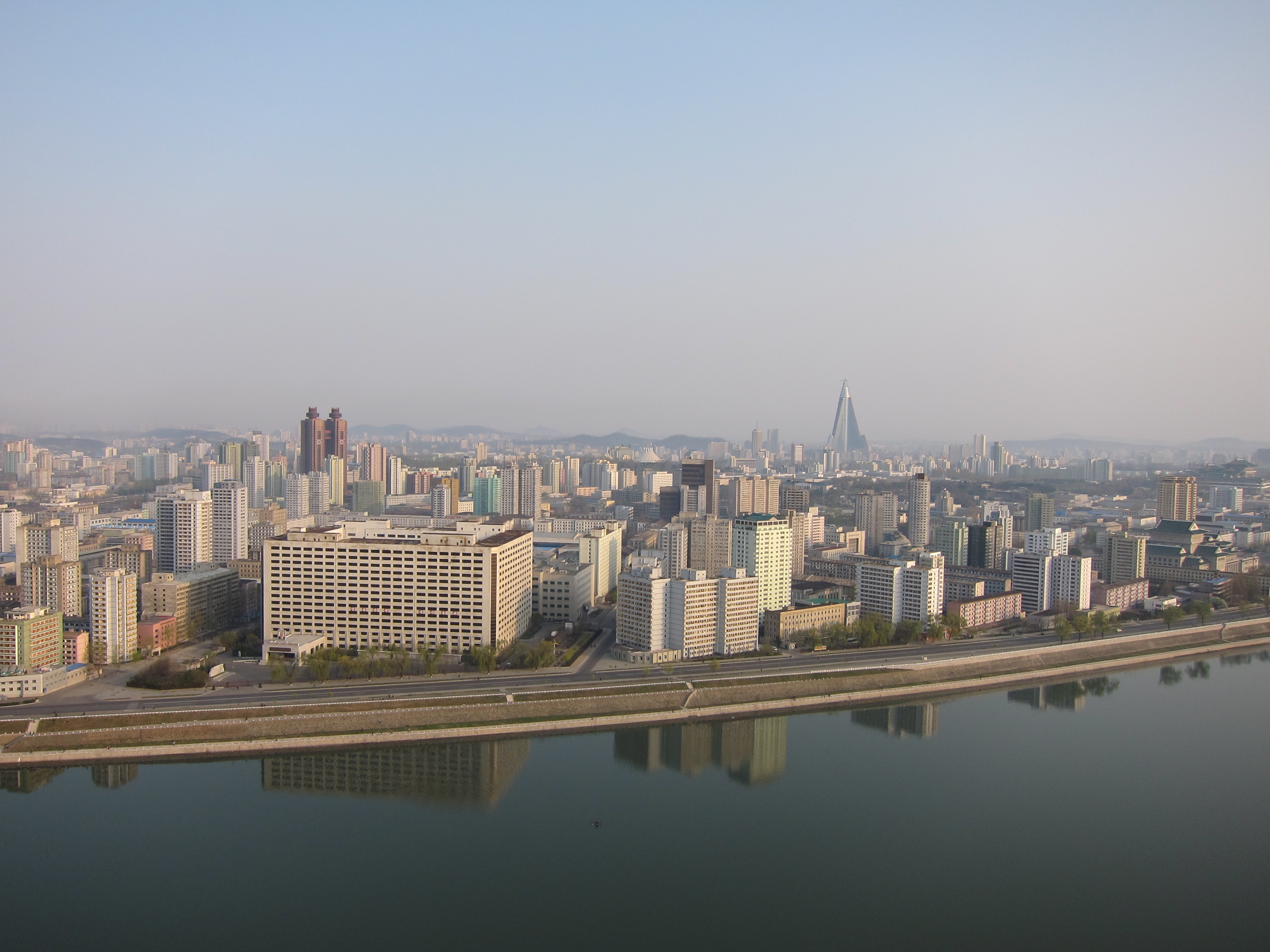 Pyongyang Skyline at 7:00AM viewed from the Yanggakdo Hotel. This was taken Sunday, May 2nd, the day after the May Day celebrations. Everyone is at home recovering from the day before!